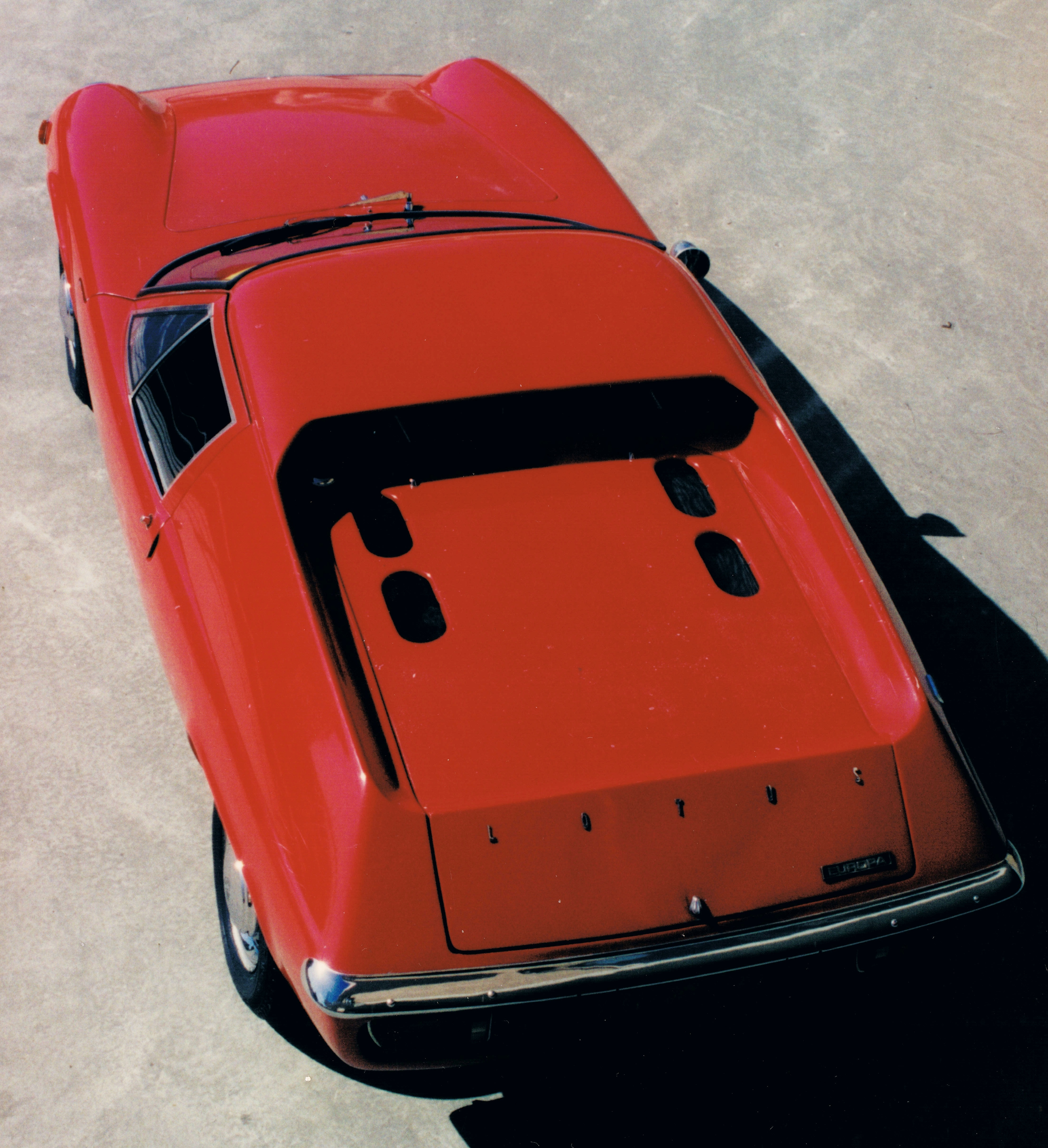 Lotus Europa S2 1968. The early S2 models were produced with S1-style front indicators and door handles. Note the S2 two-pane opening windows.